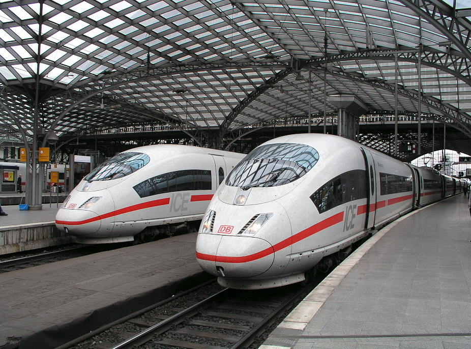 ICE, Train, InterCityExpress.